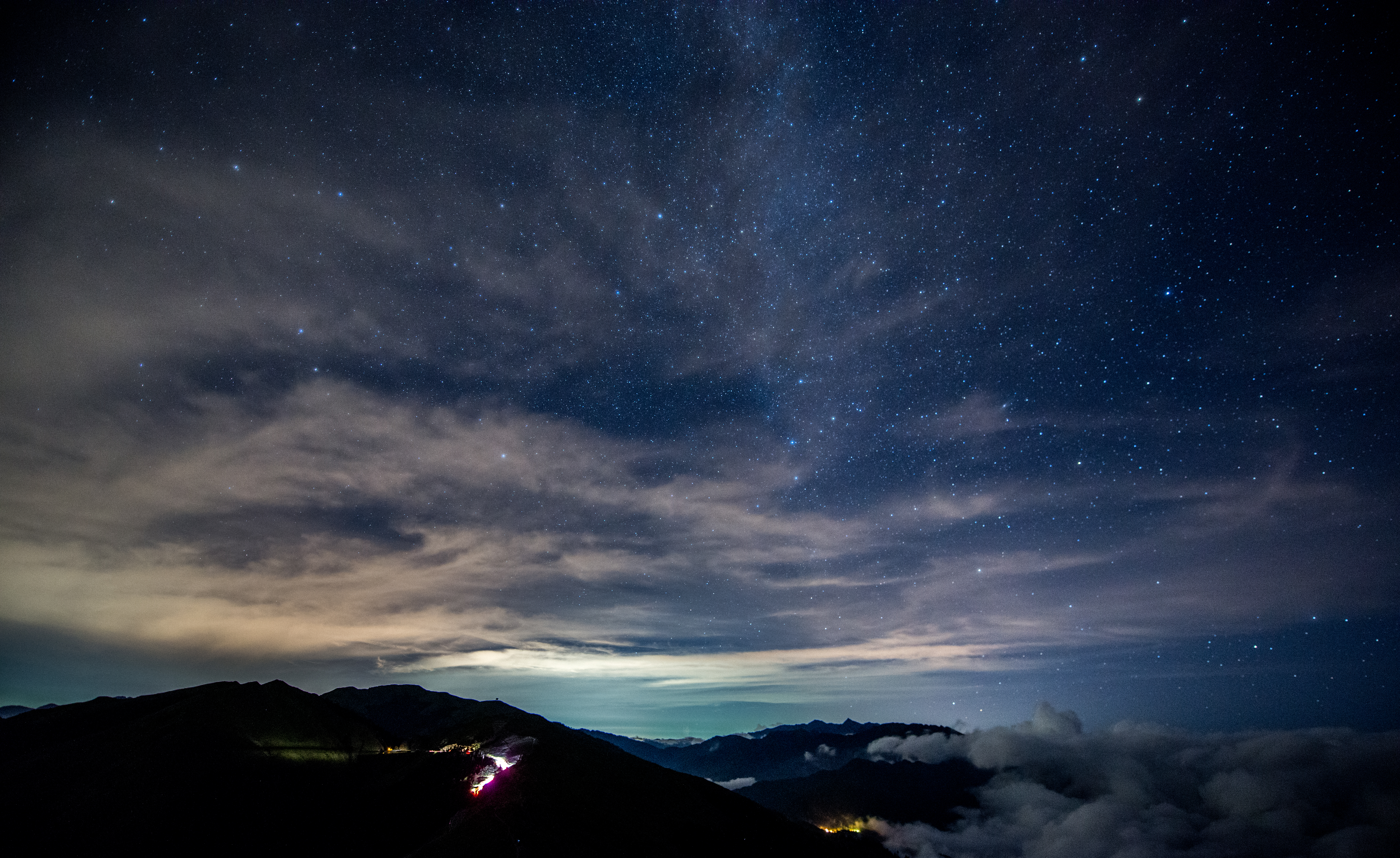 Hehuanshan, Taiwan